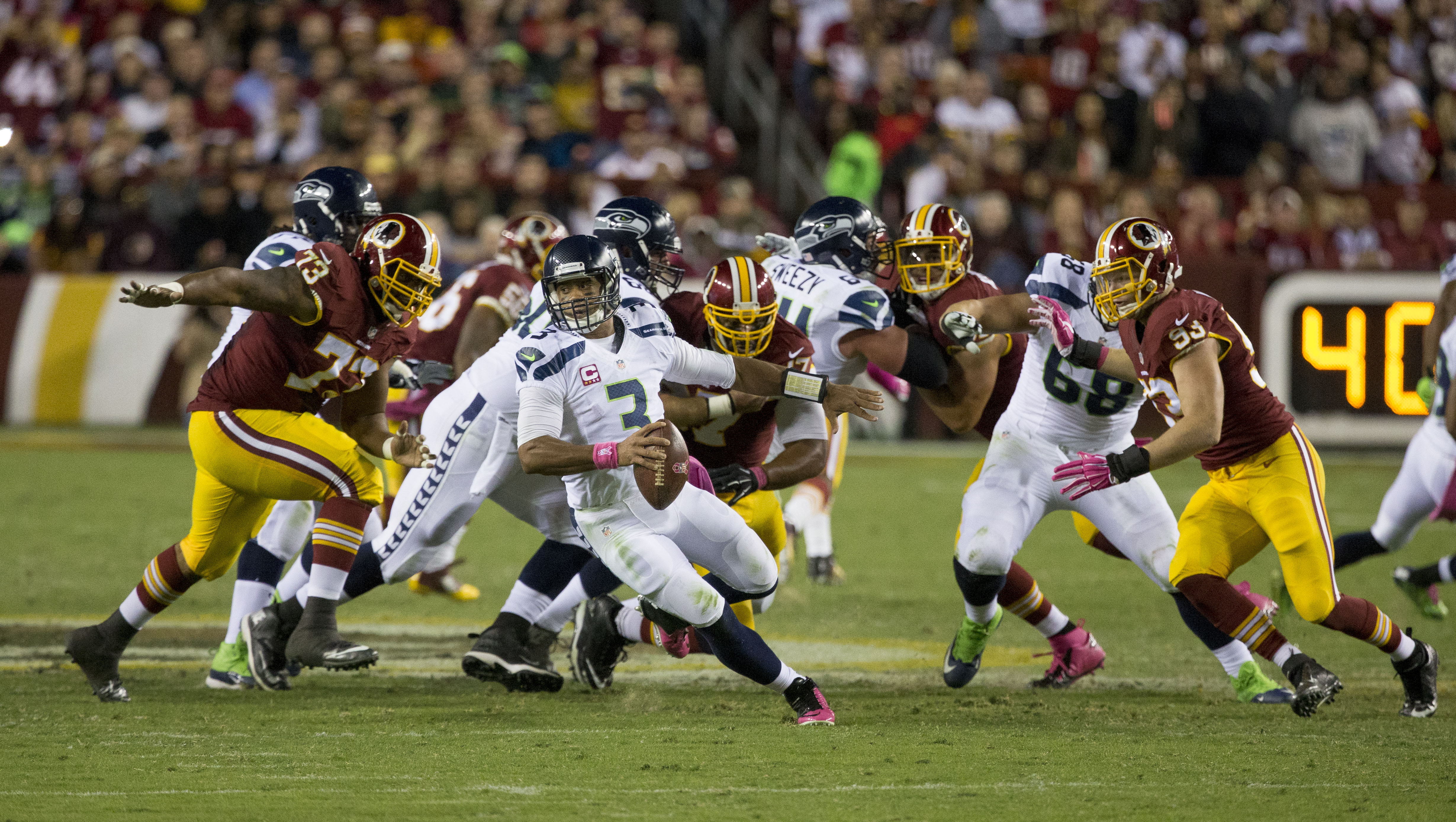 Seahawks at Redskins 10/6/14